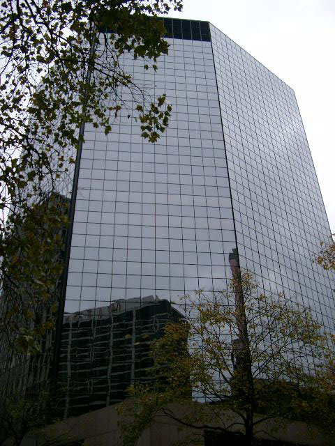 Congress Center in downtown Portland, Oregon